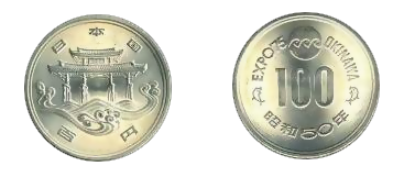 Japanese commemorative coin (記念貨幣) for Expo '75, issued in 1975. Officially equivalent to 100 Japanese Yen, made by cupronickel.